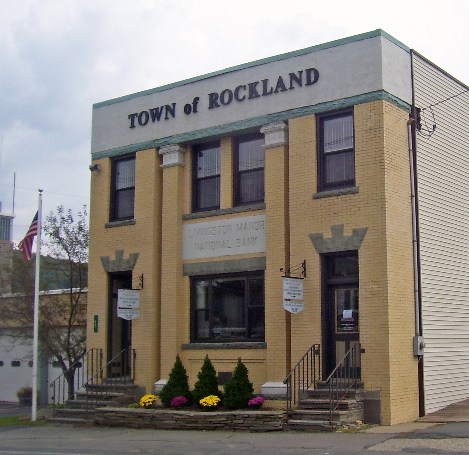 Former bank building now Rockland, NY, USA, town hall